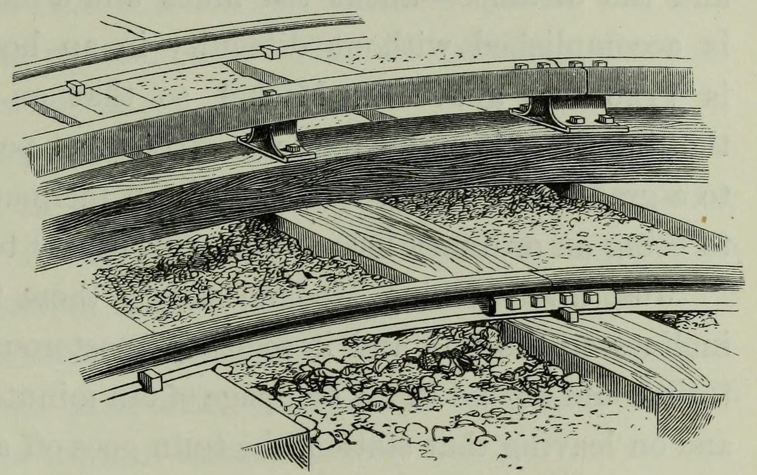 Image on page 77 of Scrambles amongst the Alps